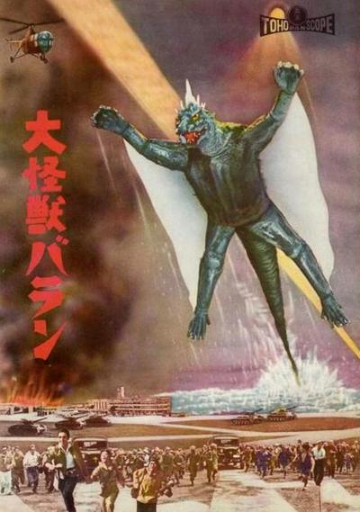 Movie poster for 1958 Japanese film Daikaiju Baran (大怪獣バラン) (Zoku shishunki).